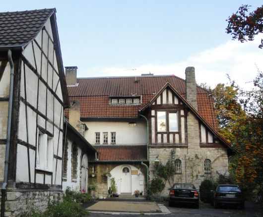 Marienhof Villa